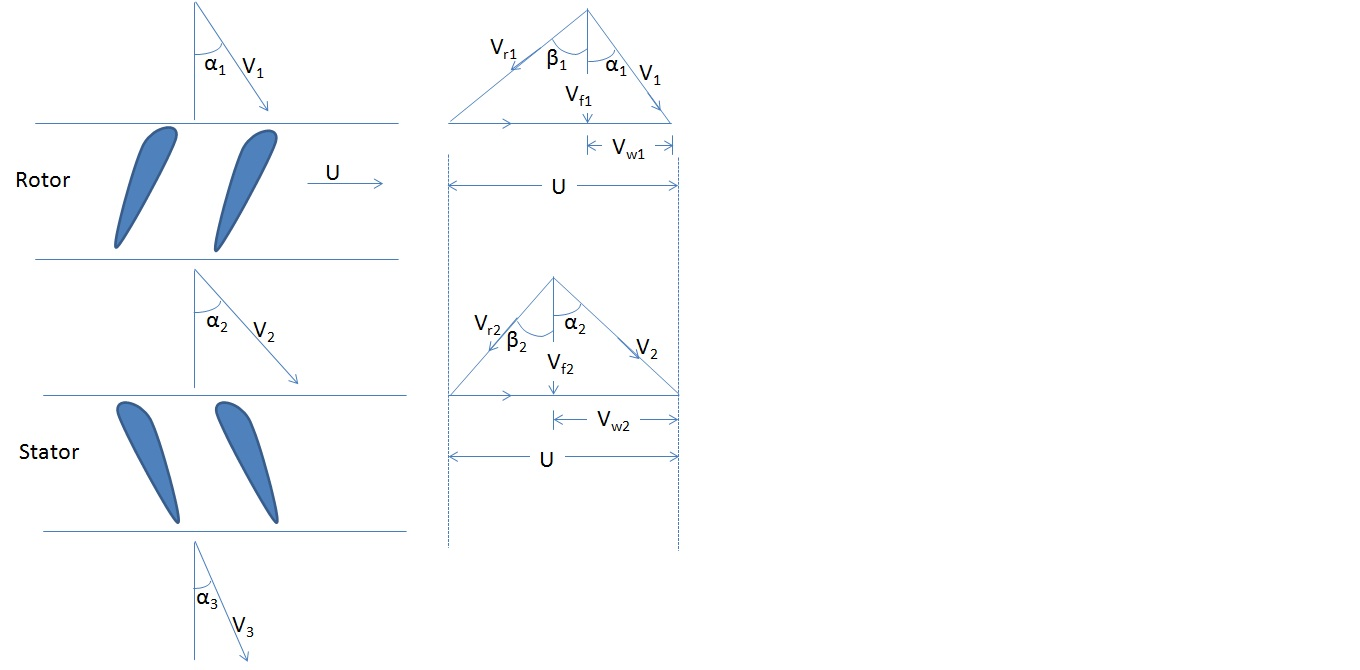 fig 9 velocity triangle for compresso